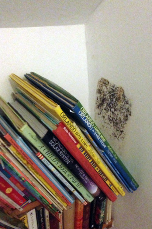 Mould behind books caused by condensation